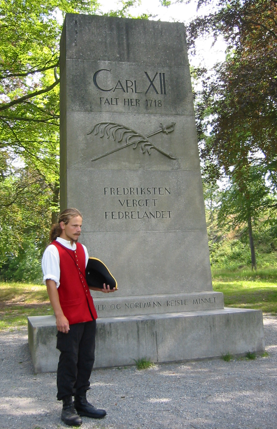 Karl Ⅻ Memorial, Fredriksten fortress, Halden.